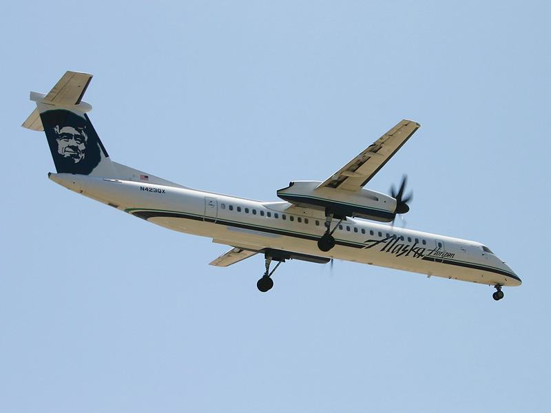 Horizon Air Bombardier Dash 8-Q400 in Alaska/Horizon livery on final approach to runway 24R at Los Angeles International Airport